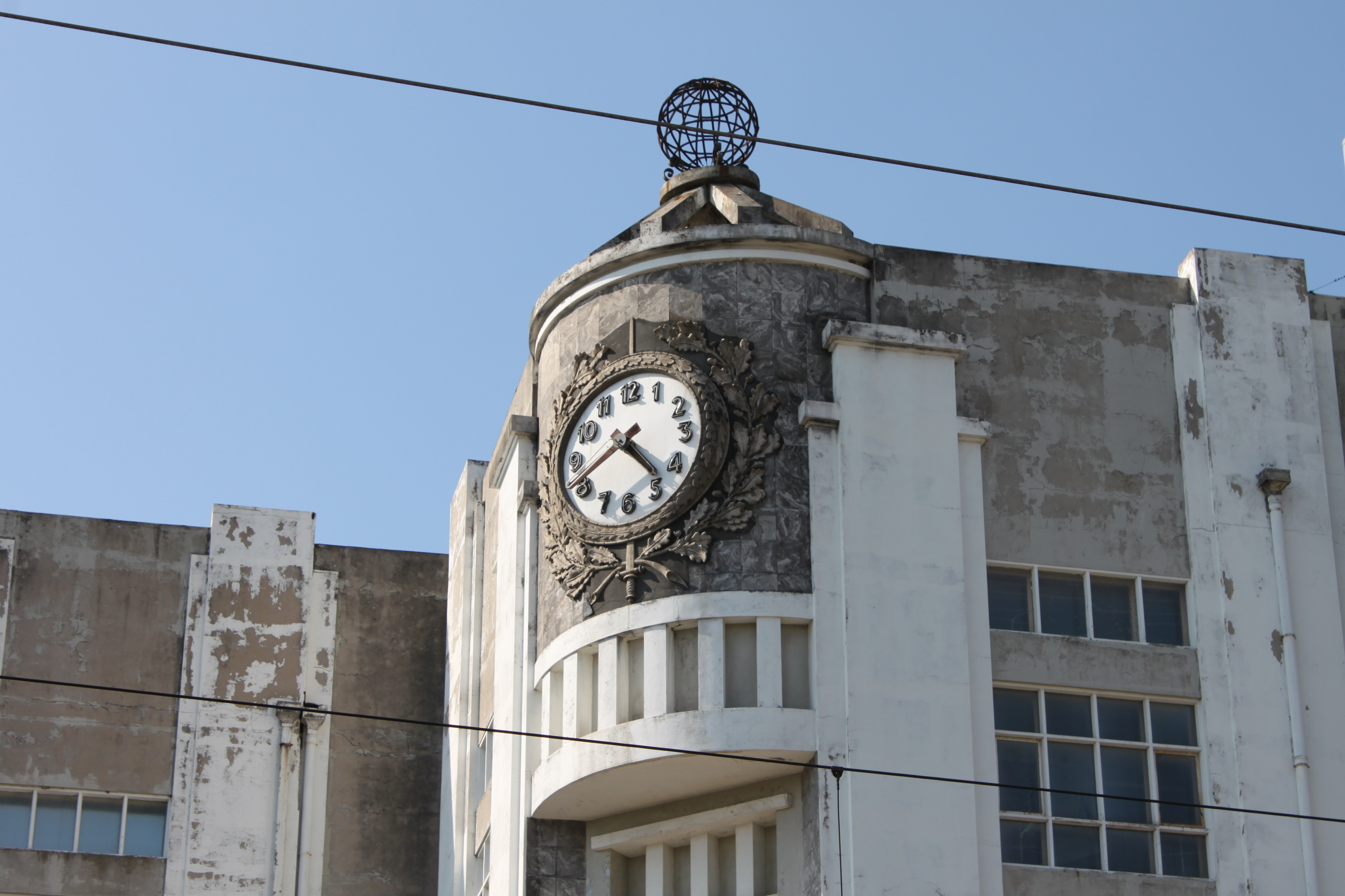 This file was uploaded for Wiki Loves Monuments in Portugal with the unique identifier 97029374.